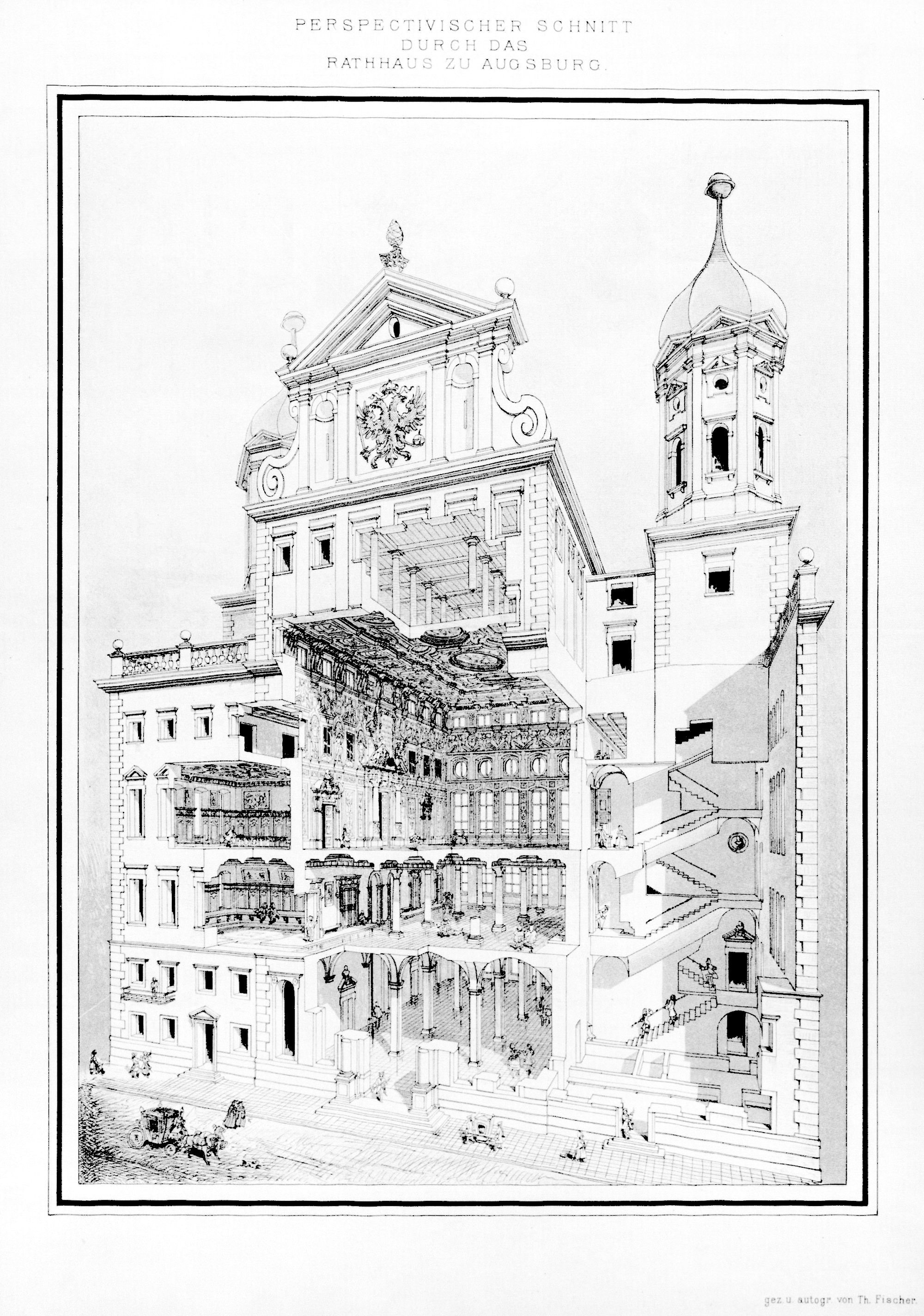 Cross section of the Augsburg Town Hall with the Goden Hall